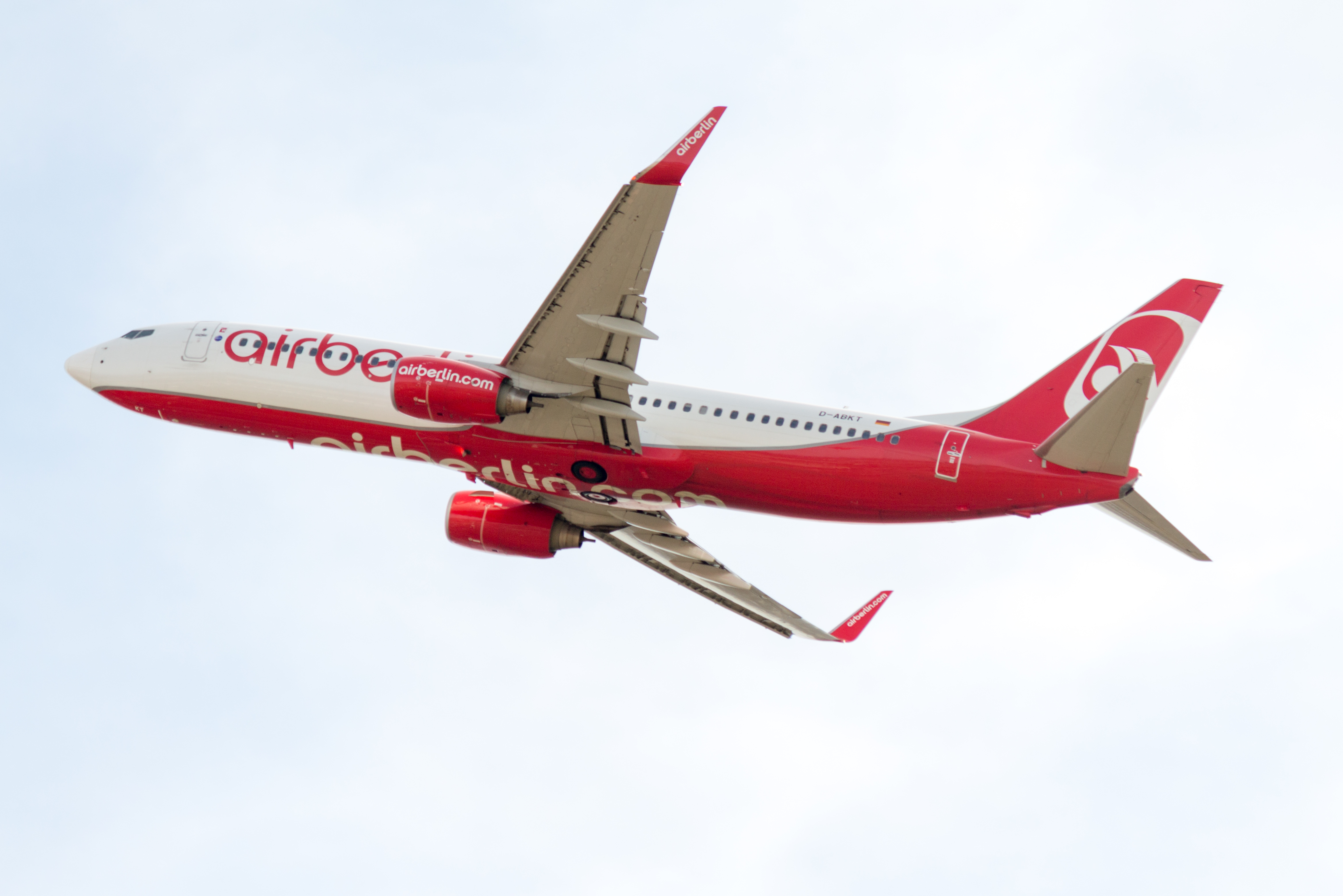 Boeing 737 at Berlin-Tegel Takeoff